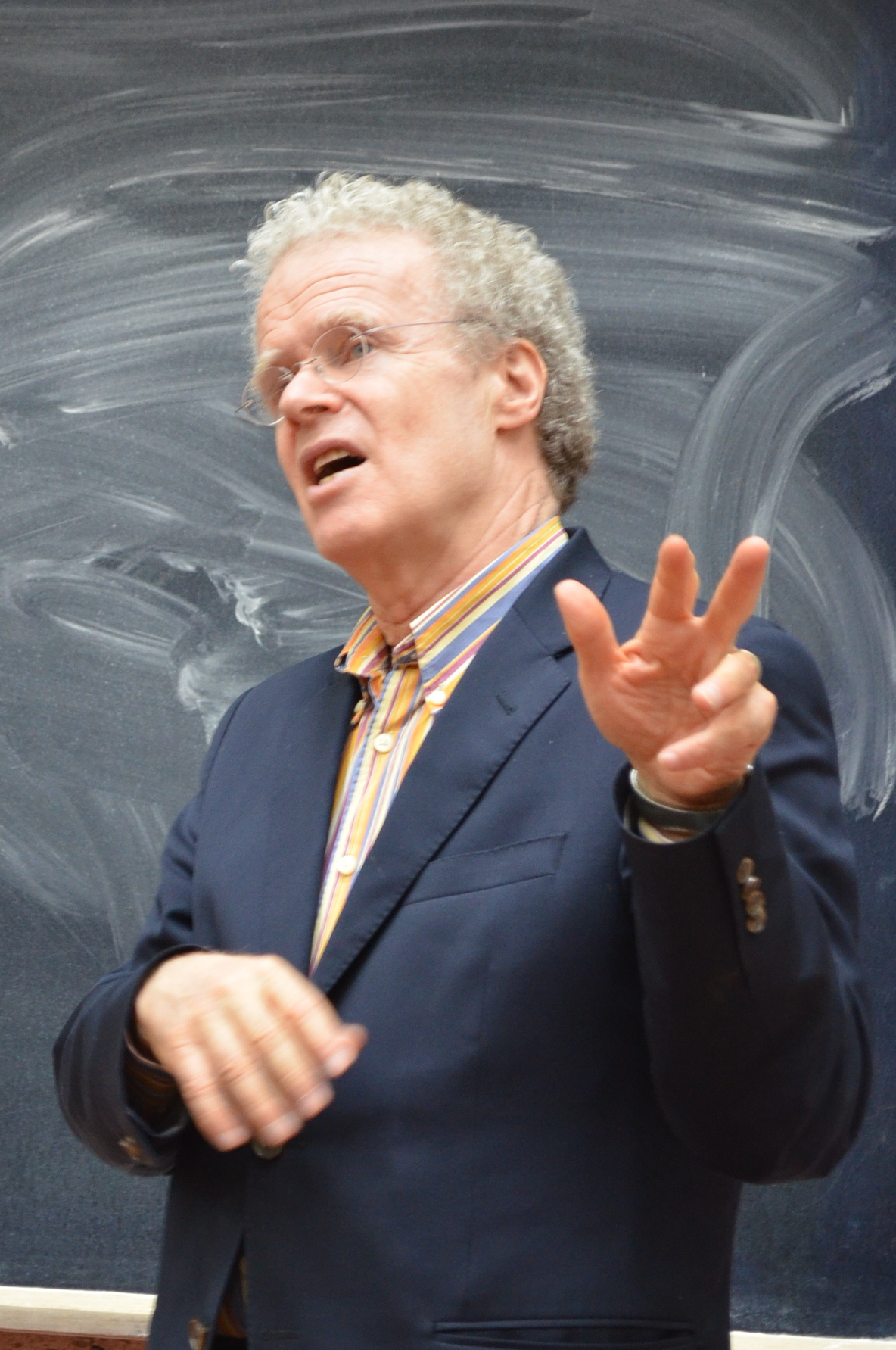 Erik Olin Wright, a sociologist, giving a lecture at faculty of sociology of Taras Shevchenko National University of Kyiv on March 13, 2013